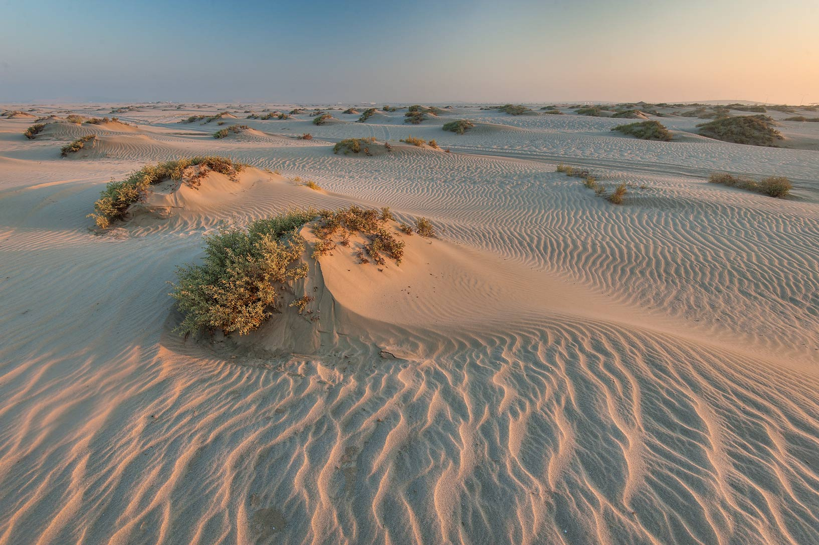 Seidlitzia rosmarinus growing on small sand mounds in Mesaieed, eastern Qatar